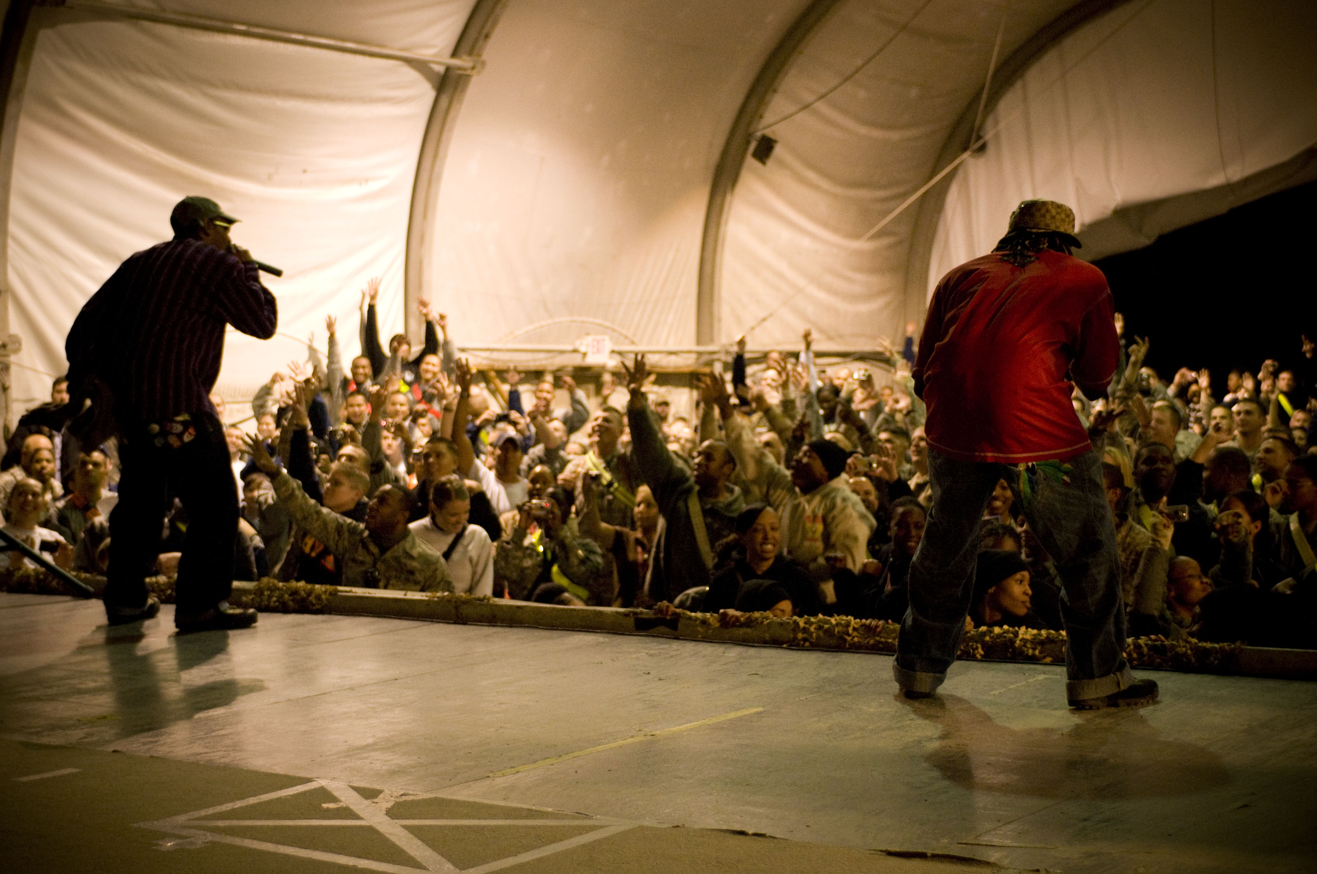 Kaine and D-Roc of rap group "Yin Yang Twins" performs with United Service Organization Tour "Around the World in 8 Days" at Bagram Air Field, Afghanistan, Nov. 13.